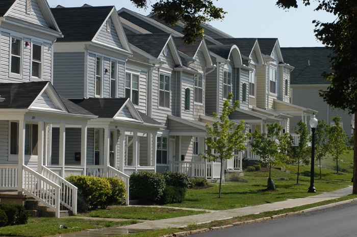 University of Dayton south student neighborhood with iconic porches.